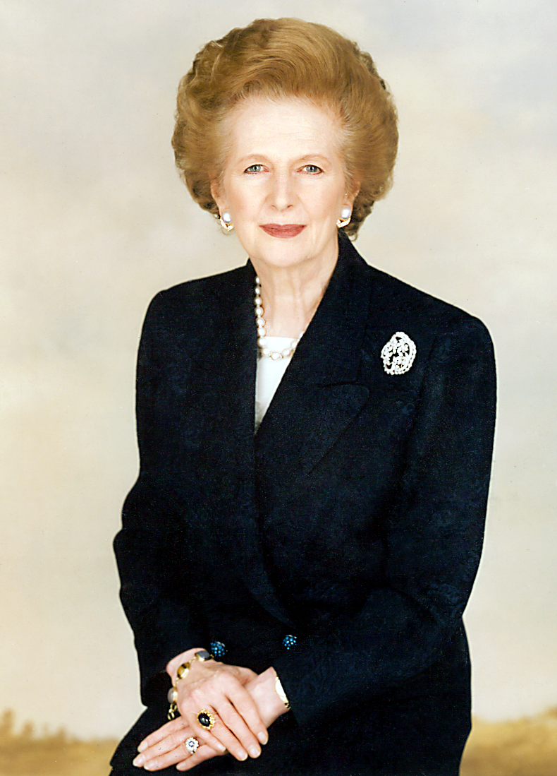 Former British Prime Minister Margaret Thatcher